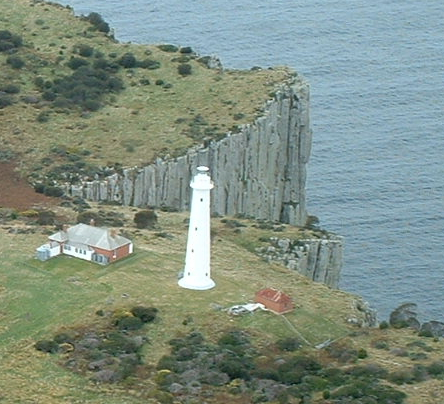 Tasman Island Lighthouse, Tasmania